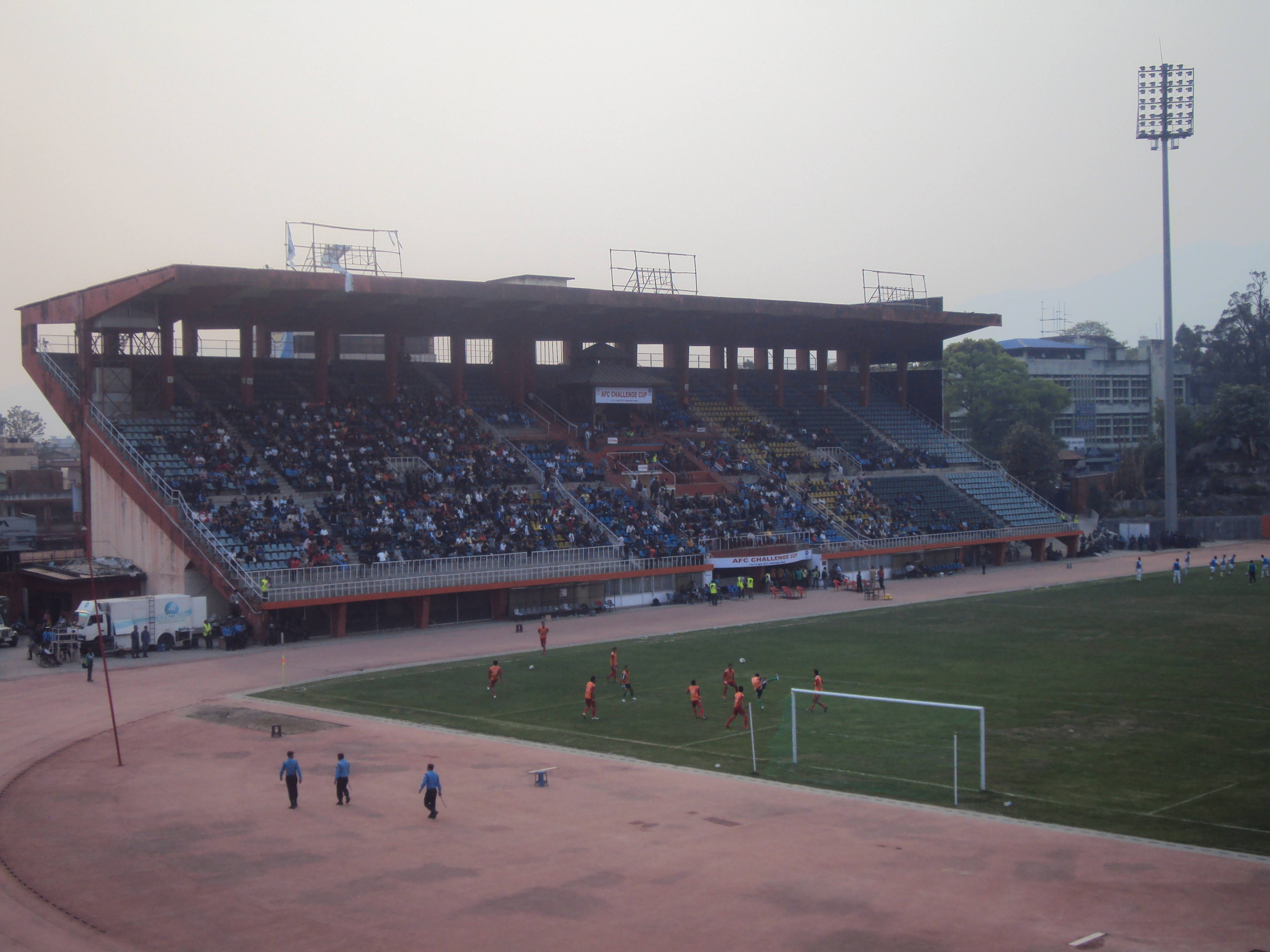 nothing